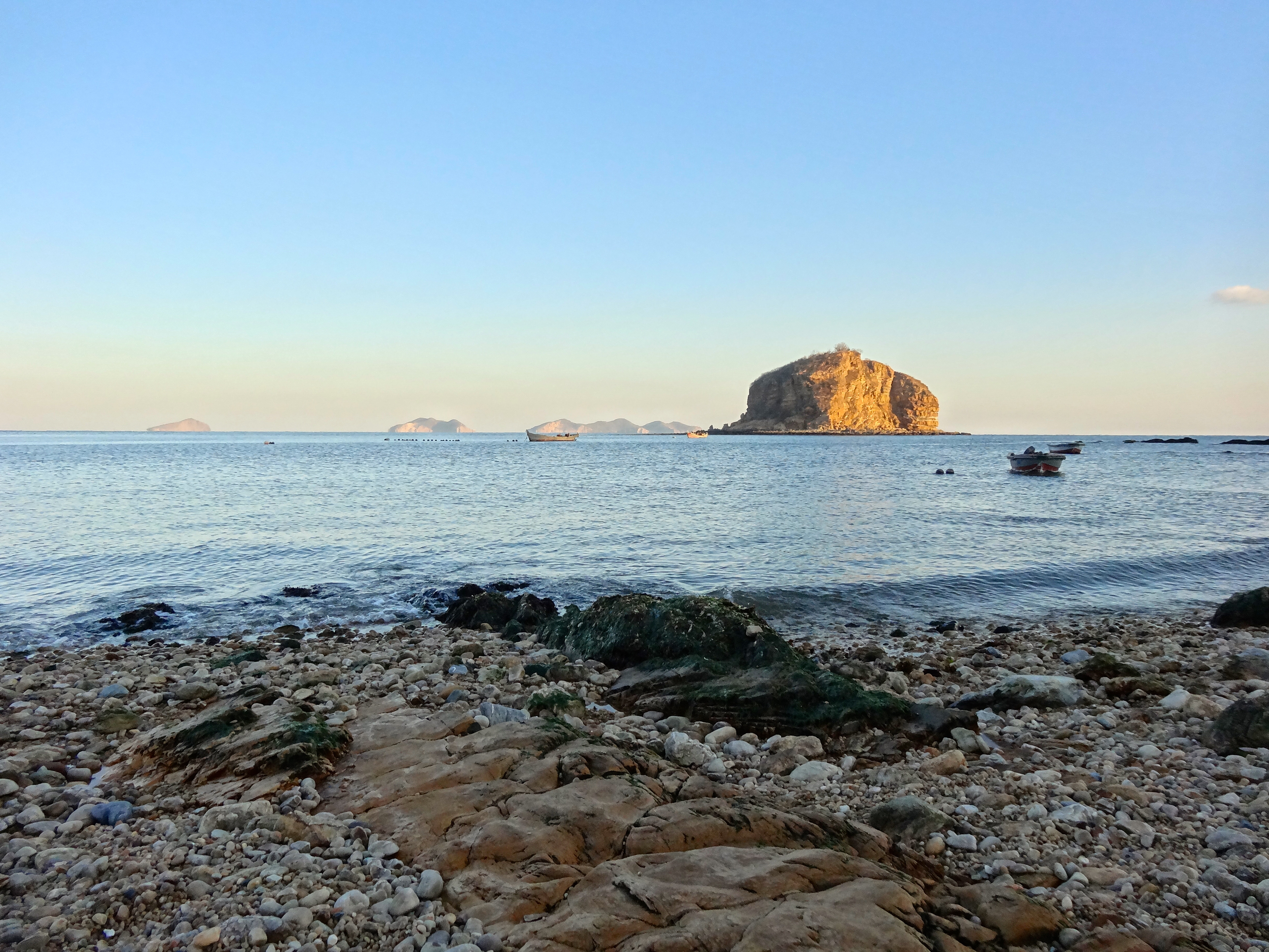 Bangchuidao Island, Dalian, China